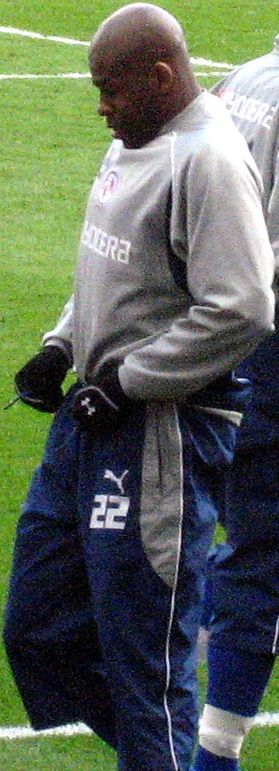 Michael Duberry. Image cropped from original at flickr.